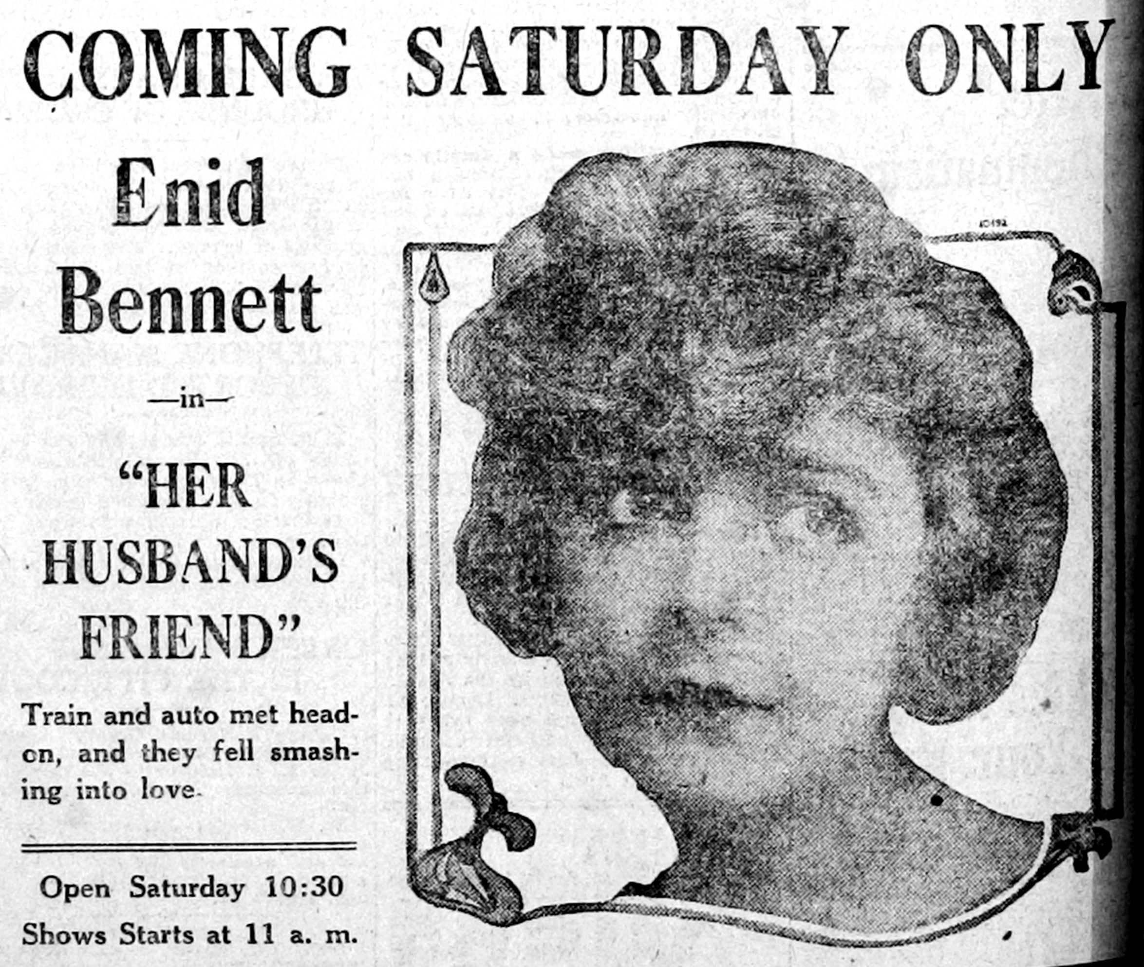 Her Husband's Friend is a 1920 silent drama film directed by Fred Niblo. This is a contemporary advert for the film (published in a newspaper).